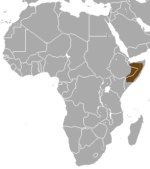 Somali Slender Mongoose (Galerella ochracea) range